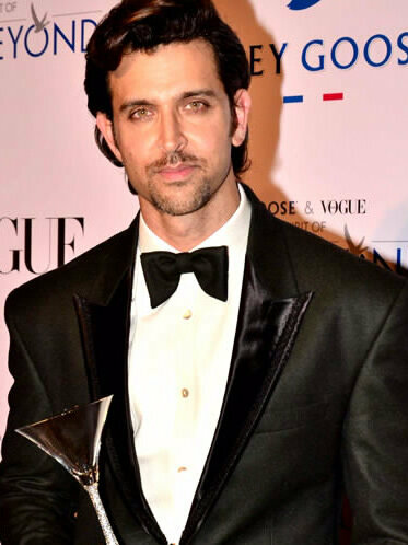 Hrithik Roshan at Grey Goose India's Fly Beyond Awards